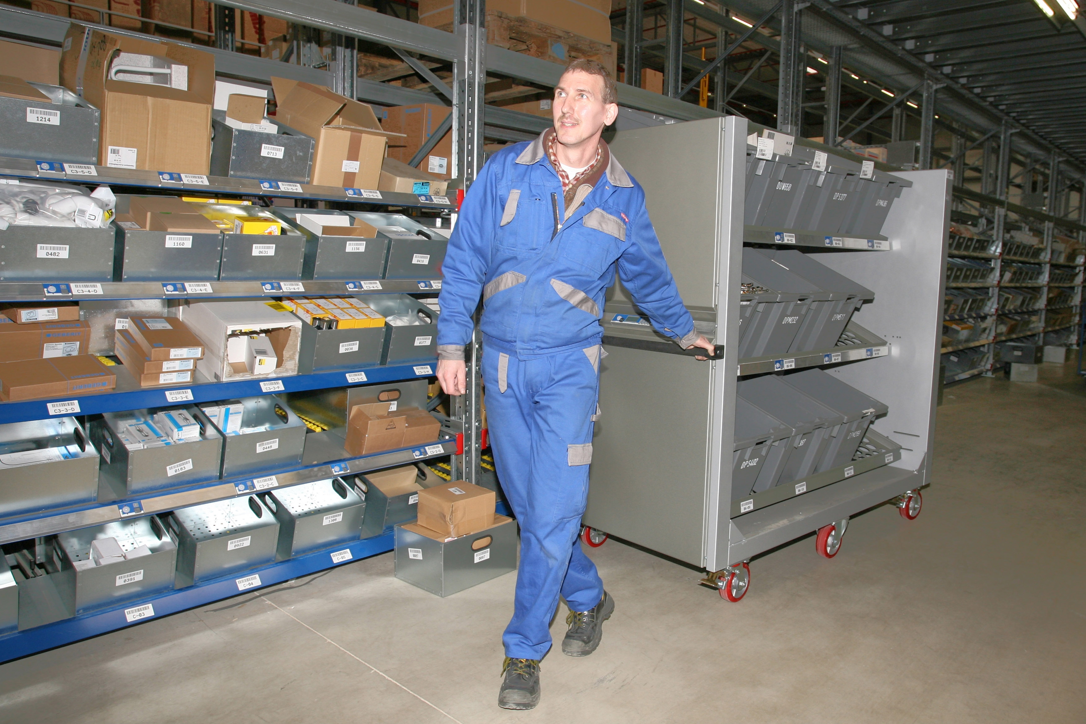 Pick-by-light picking cart with nine compartments